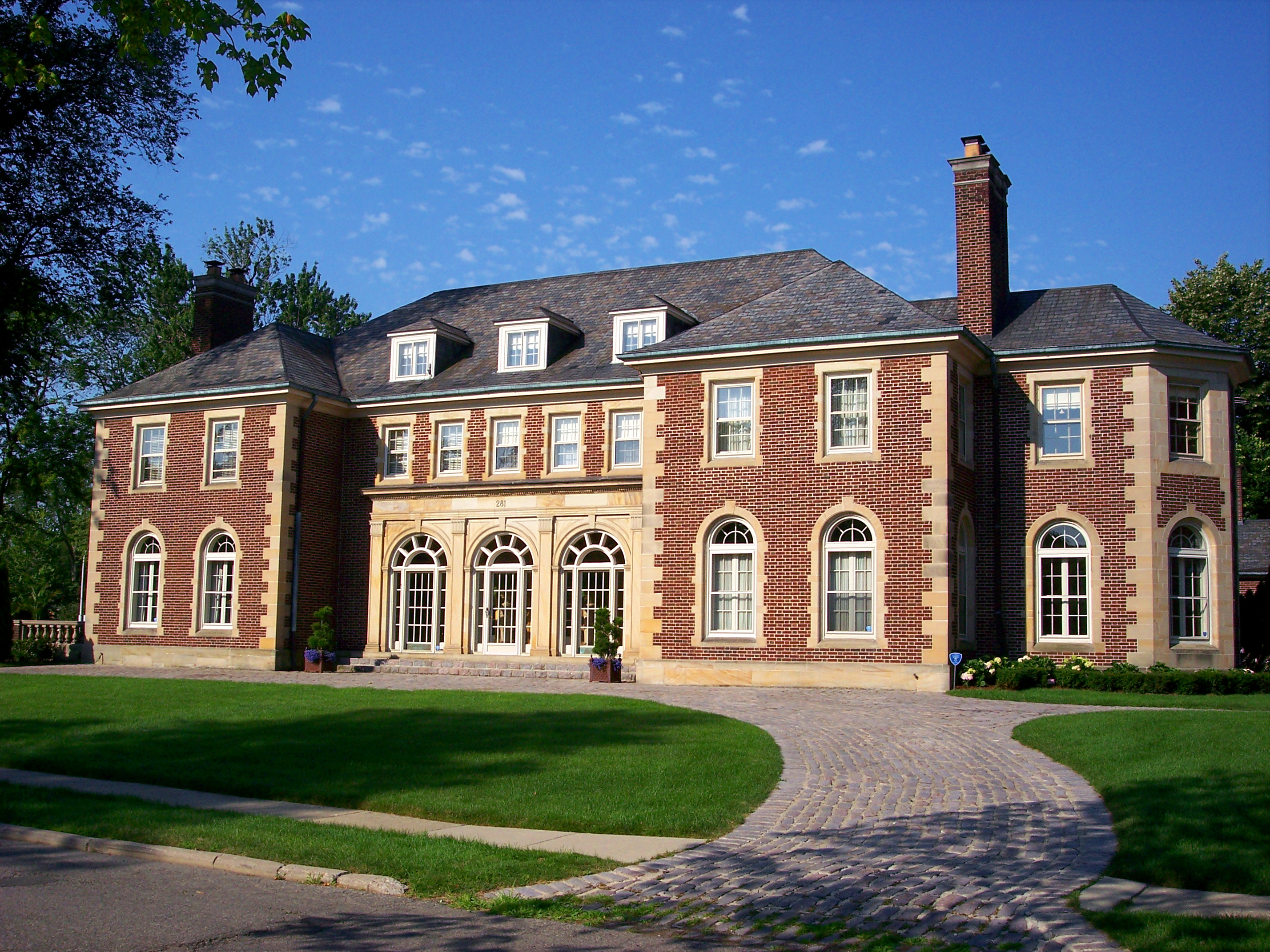 A restored Georgian manor with 10,378 square feet (8,800 square feet of living area), 4 car garage, carriage house, originally built in 1918 at 281 University Place, Grosse Pointe, MI